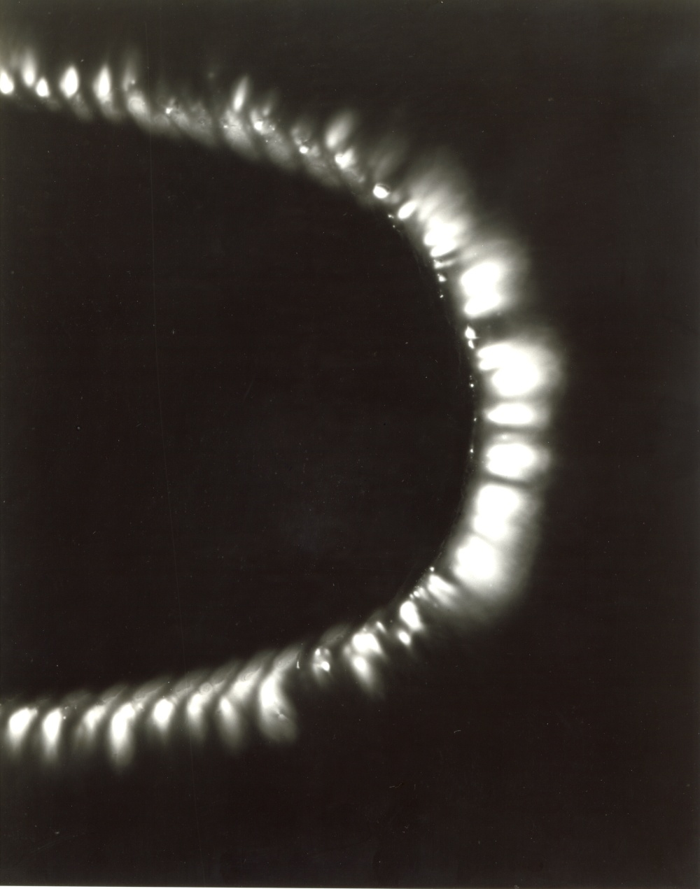 Black and white Kirlian photo of a fingertip.